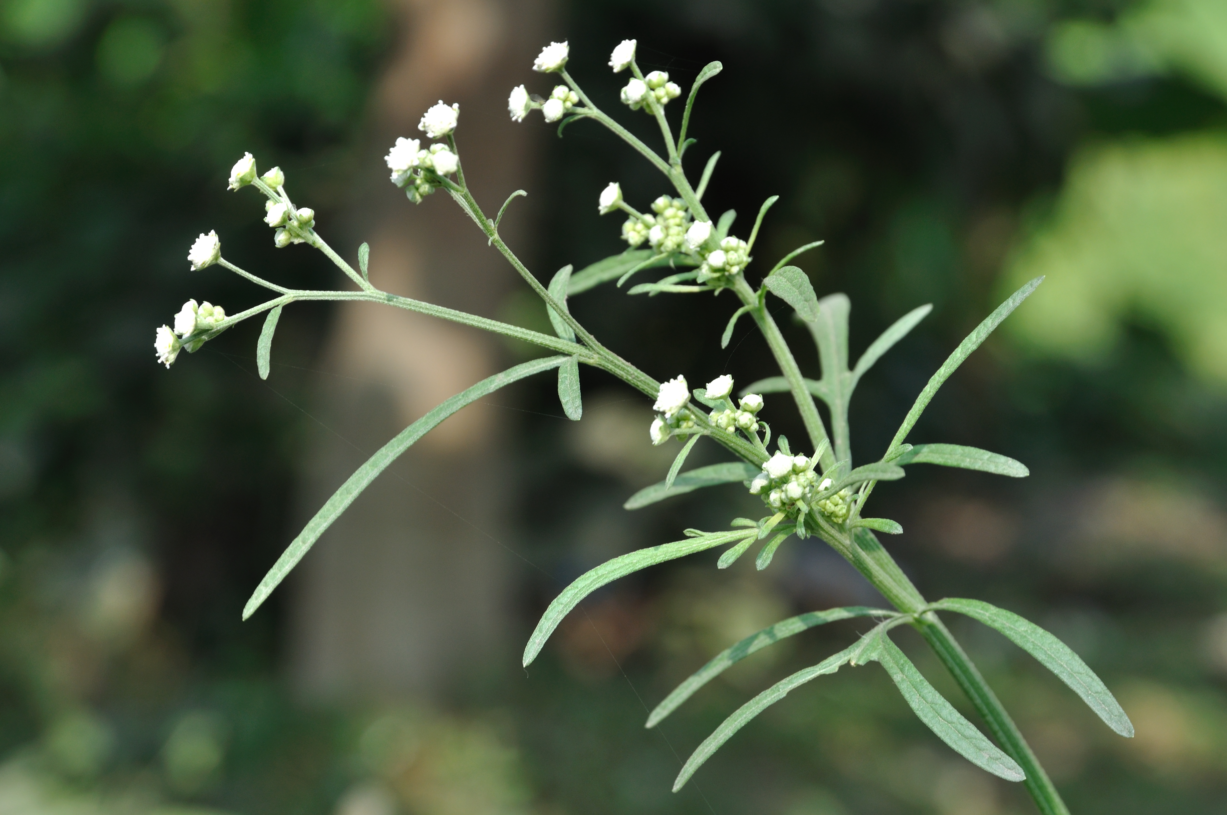 Parthenium also called gajar ghas, is a genus of flowering plants in the aster family, Asteraceae. Notable species in this genus include Guayule. It is also called bitterweed, carrot-grass, false ragweed, feverfew, parthenium-weed, ragweed parthenium, Santa Maria feverfew, whitetop, coentro-do-mato, losna-branca, cicutilla. It is biggest problem in cultivation in India. Photographed at Howrah, India.